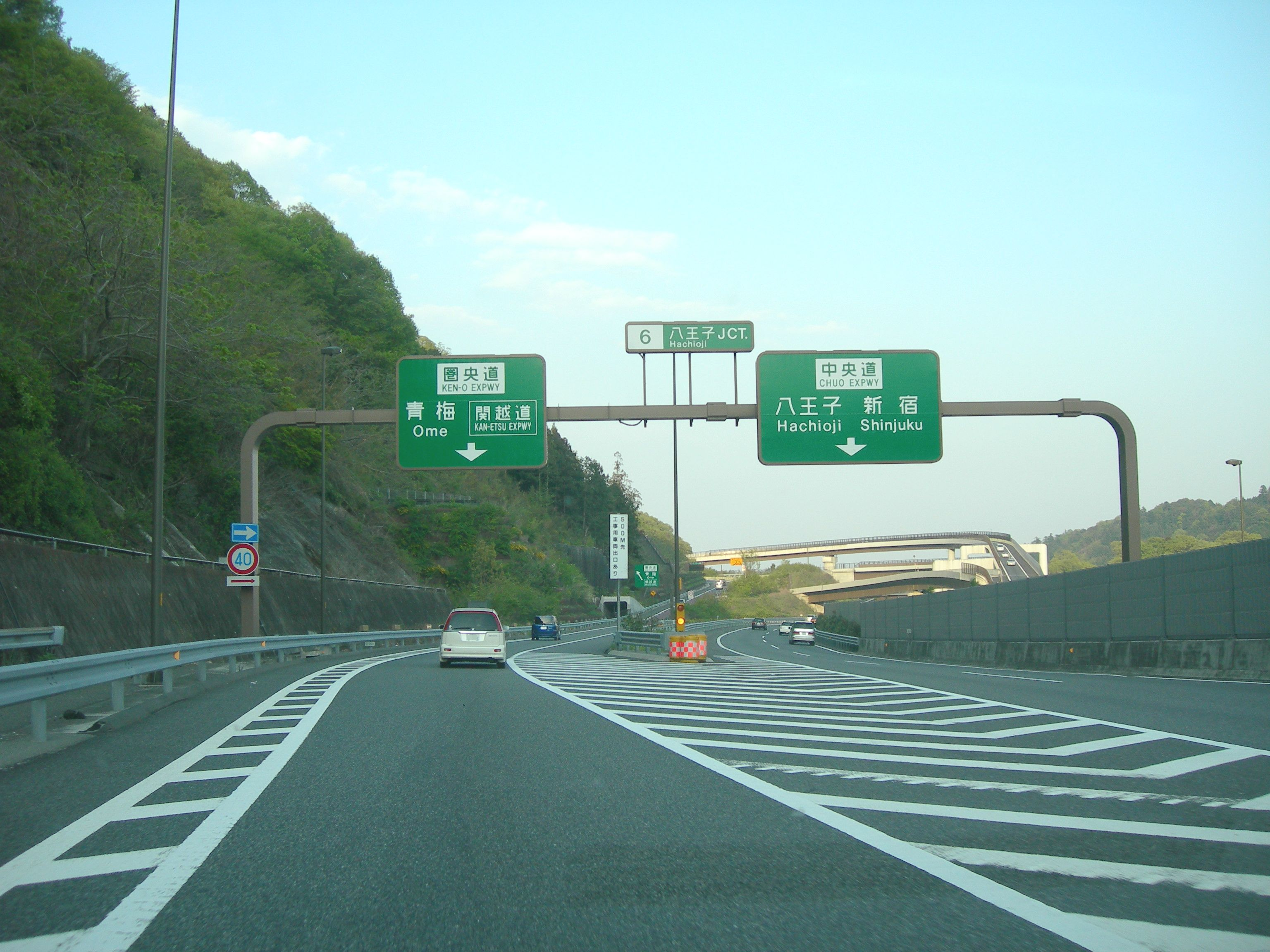 Hachioji Junction on the Chuo Expressway